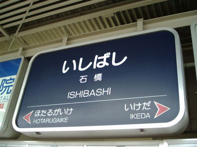 Station sign of Hankyu Ishibashi Station